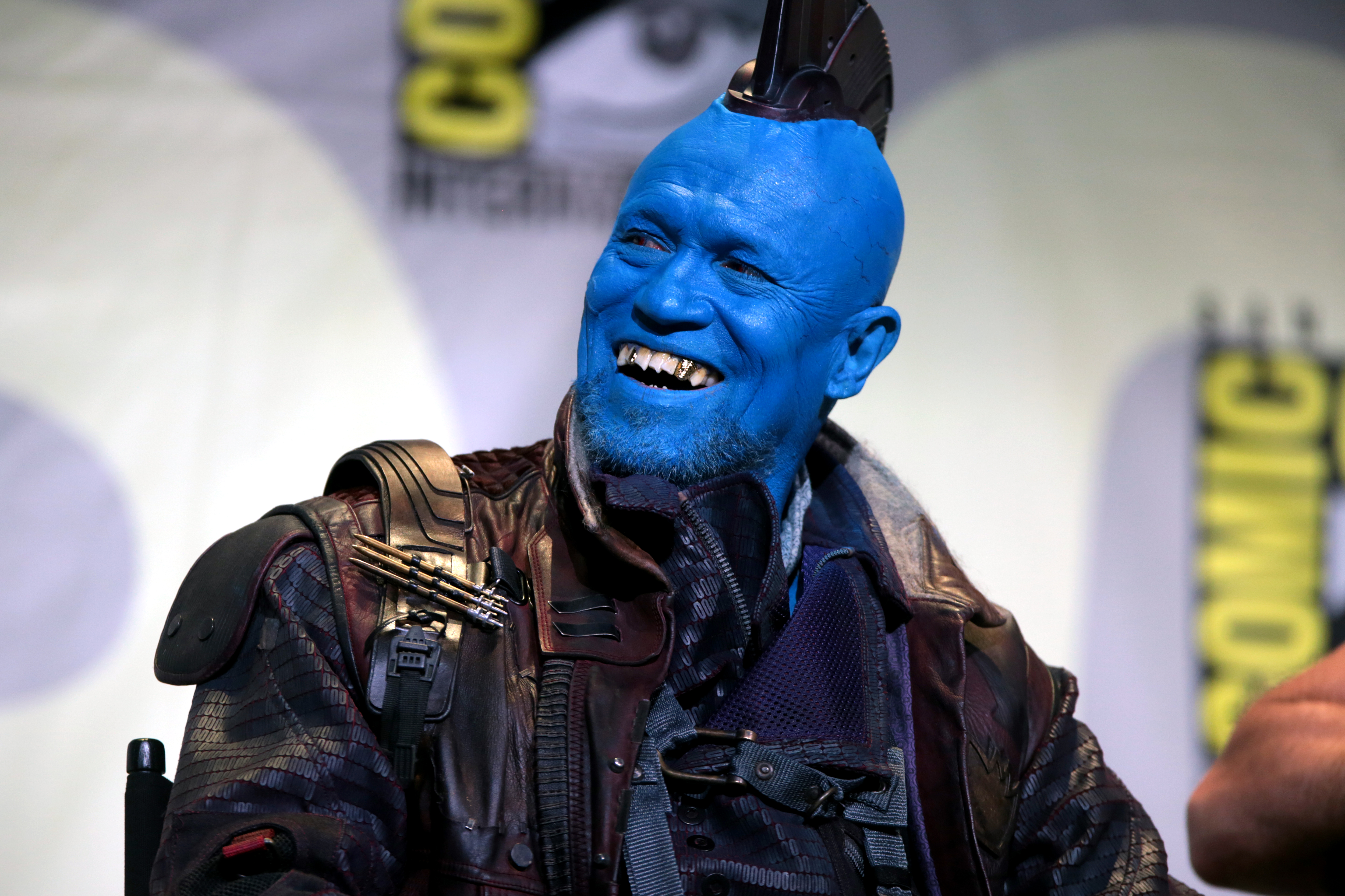 Michael Rooker speaking at the 2016 San Diego Comic Con International, for "Guardians of the Galaxy Vol. 2", at the San Diego Convention Center in San Diego, California.